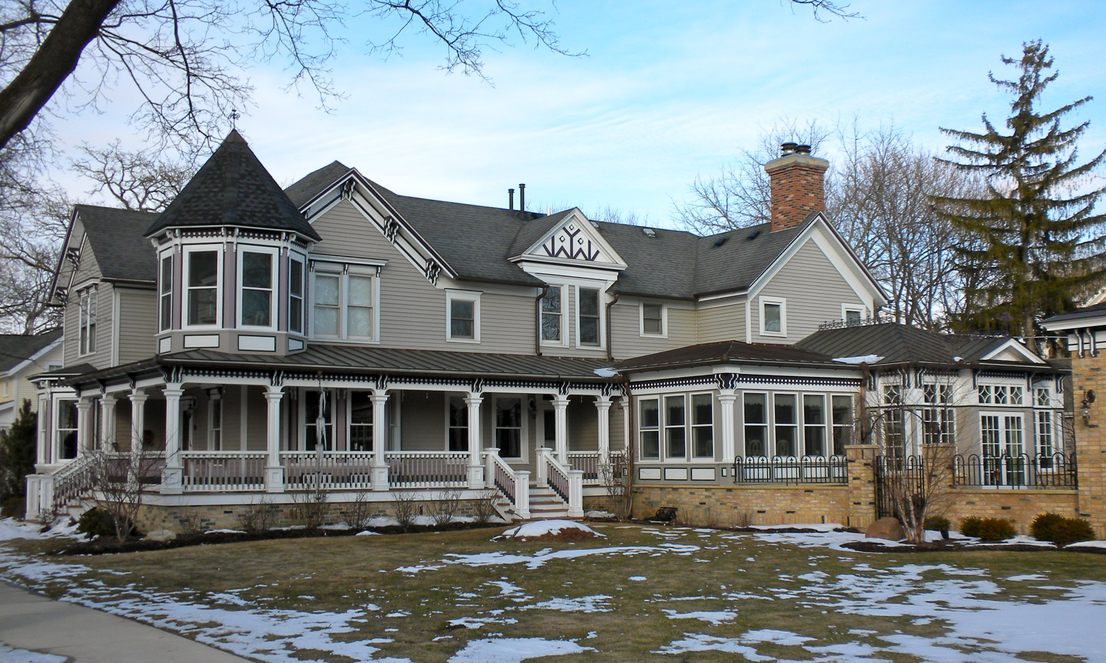 House on Cook Street, Barrington, IL in Barrington Historic District, NRHP since May 16, 1986. District is Roughly bounded by Chicago & Northwestern RR, S. Spring and Grove Sts., E. Hillside and W. Coolidge, and Dundee Aves.